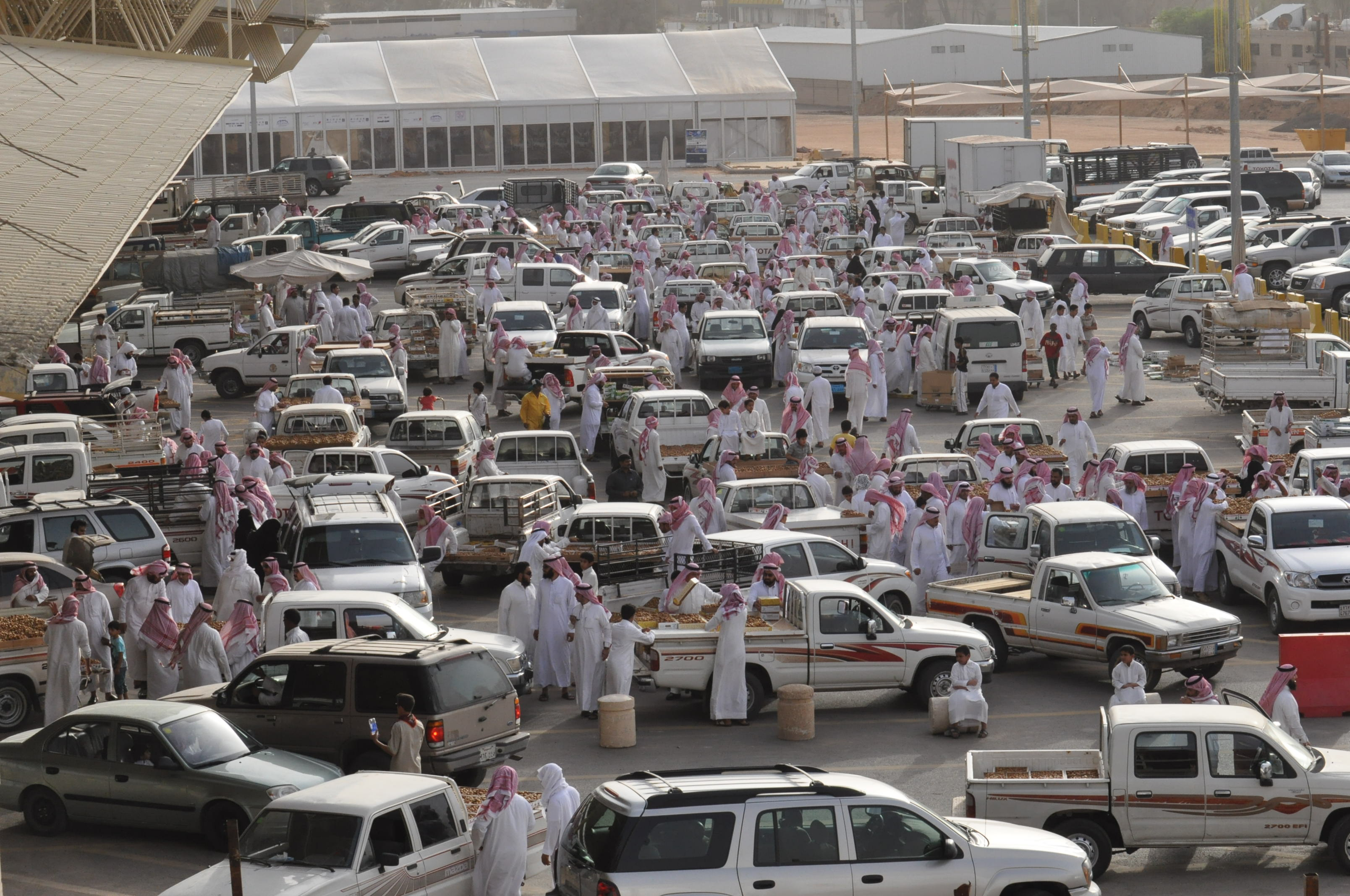 Date City in Buraidah